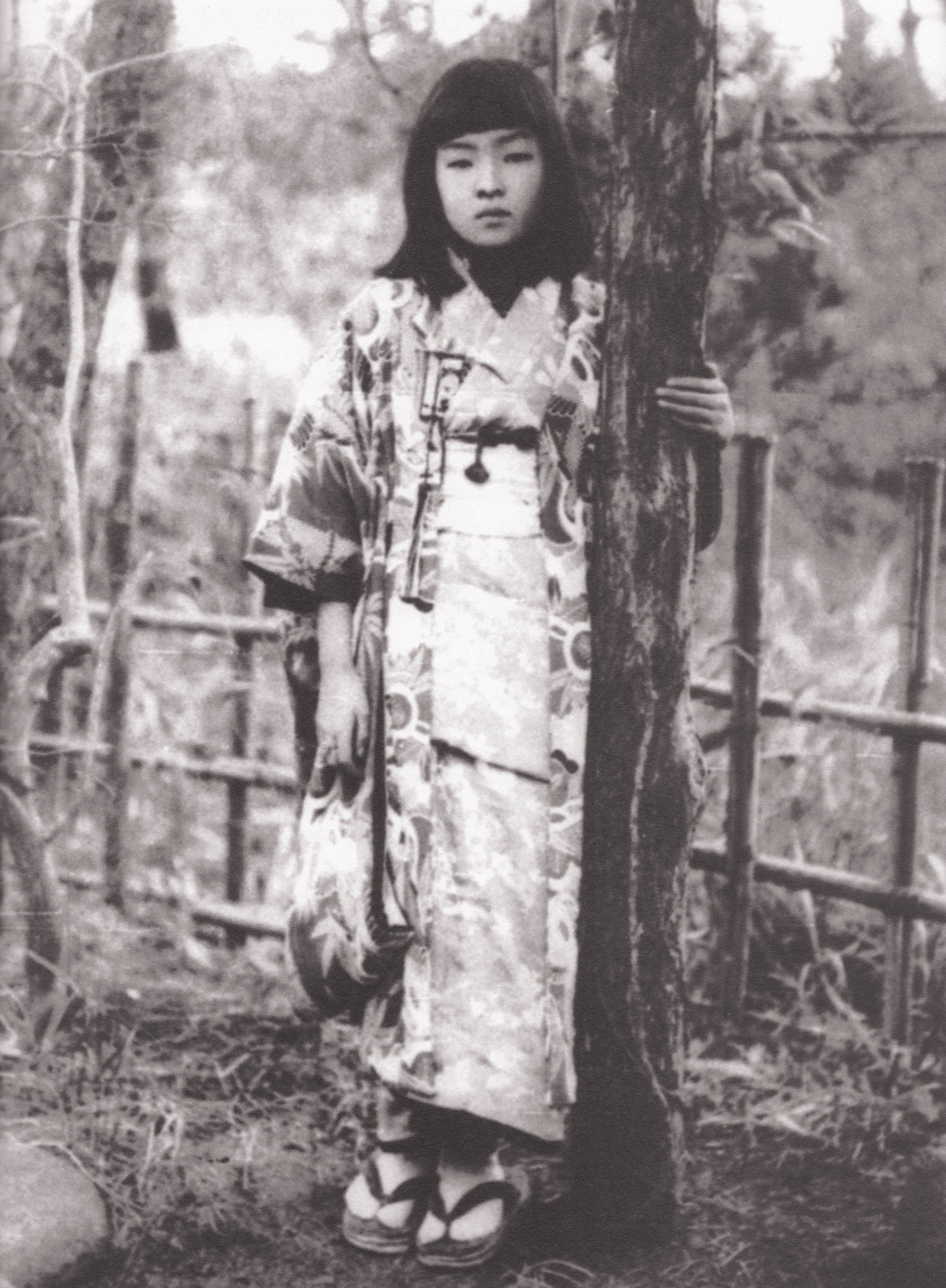 Kishida Reiko, age 9 (1923)